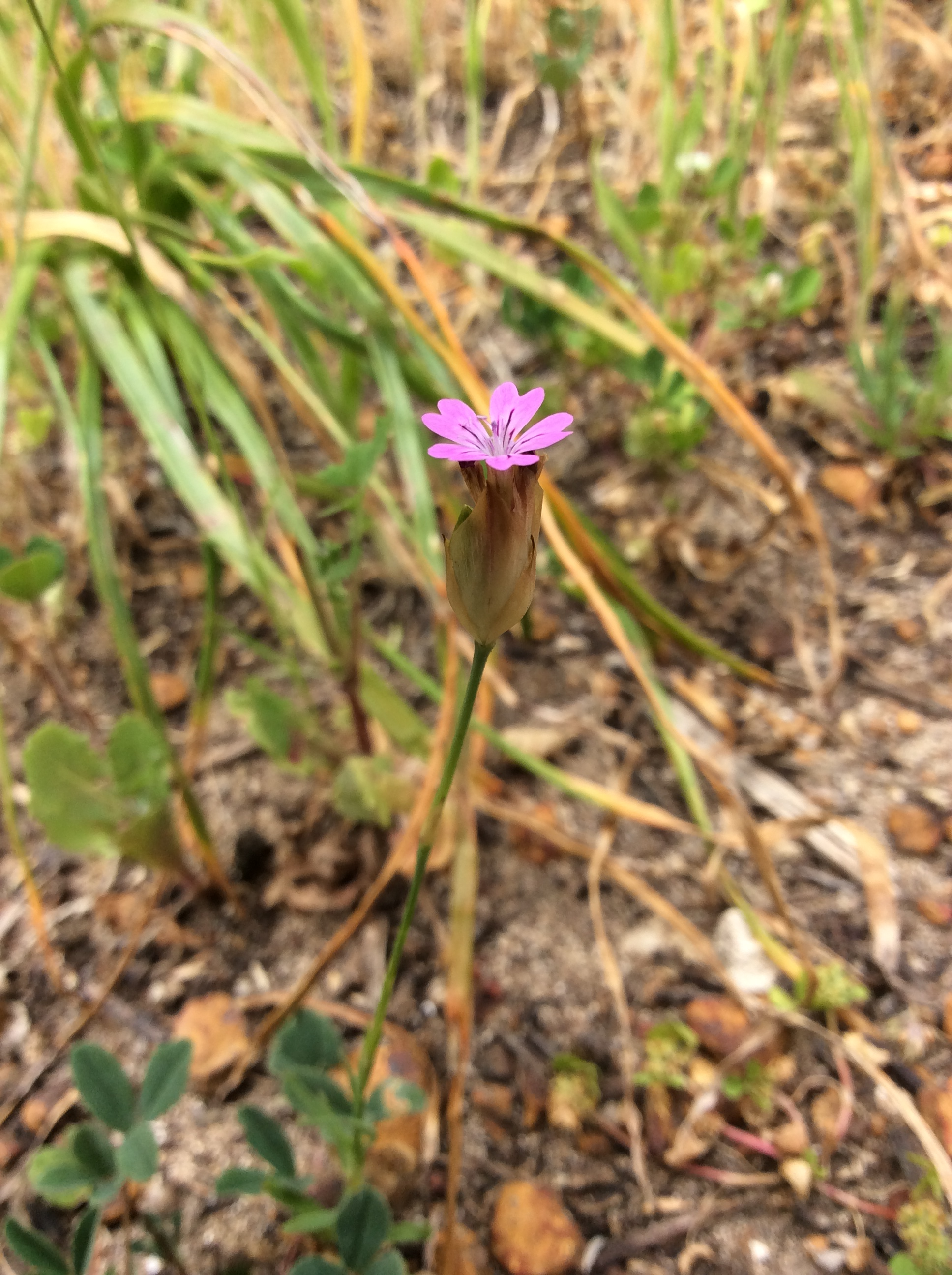 Petrorhagia velutina (Petrorhagia dubia), Yallingup, Western Australia